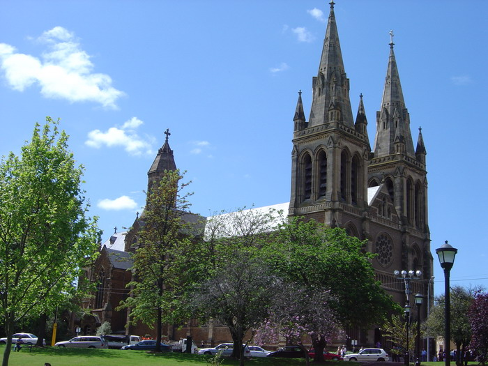 St. Peters Cathedral, Adelaide. St Peter's Cathedral. Adelaide. Completed 1901.